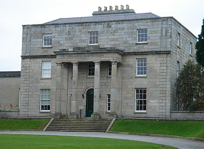 Pearse Museum, Dublin (2005)